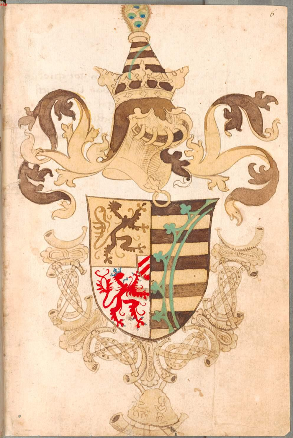 Coat of Arms of Sophie of Saxony-Lauenburg, duchess of Jülich and Berg, countess of Ravensberg (* before 1444; † 9. September 1473